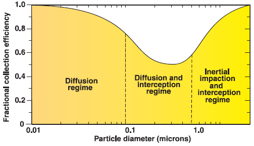 For mechanical filtration using a filter the filter's efficiency is dominated largely by the forces of diffusion, interception, and impaction. The lowest point on the curve represents the particle diameter for which the filter is least efficient.